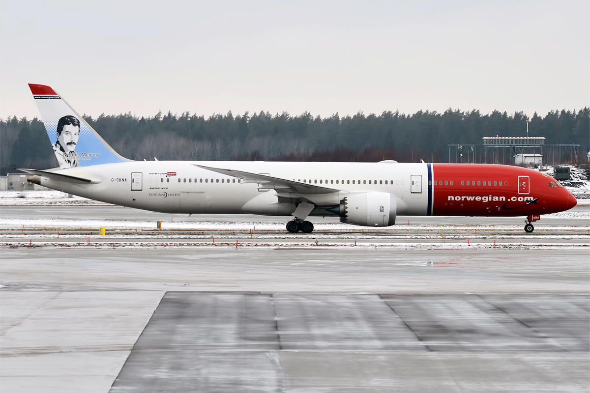 Norwegian (Freddie Mercury Livery), G-CKNA, Boeing 787-9 Dreamliner